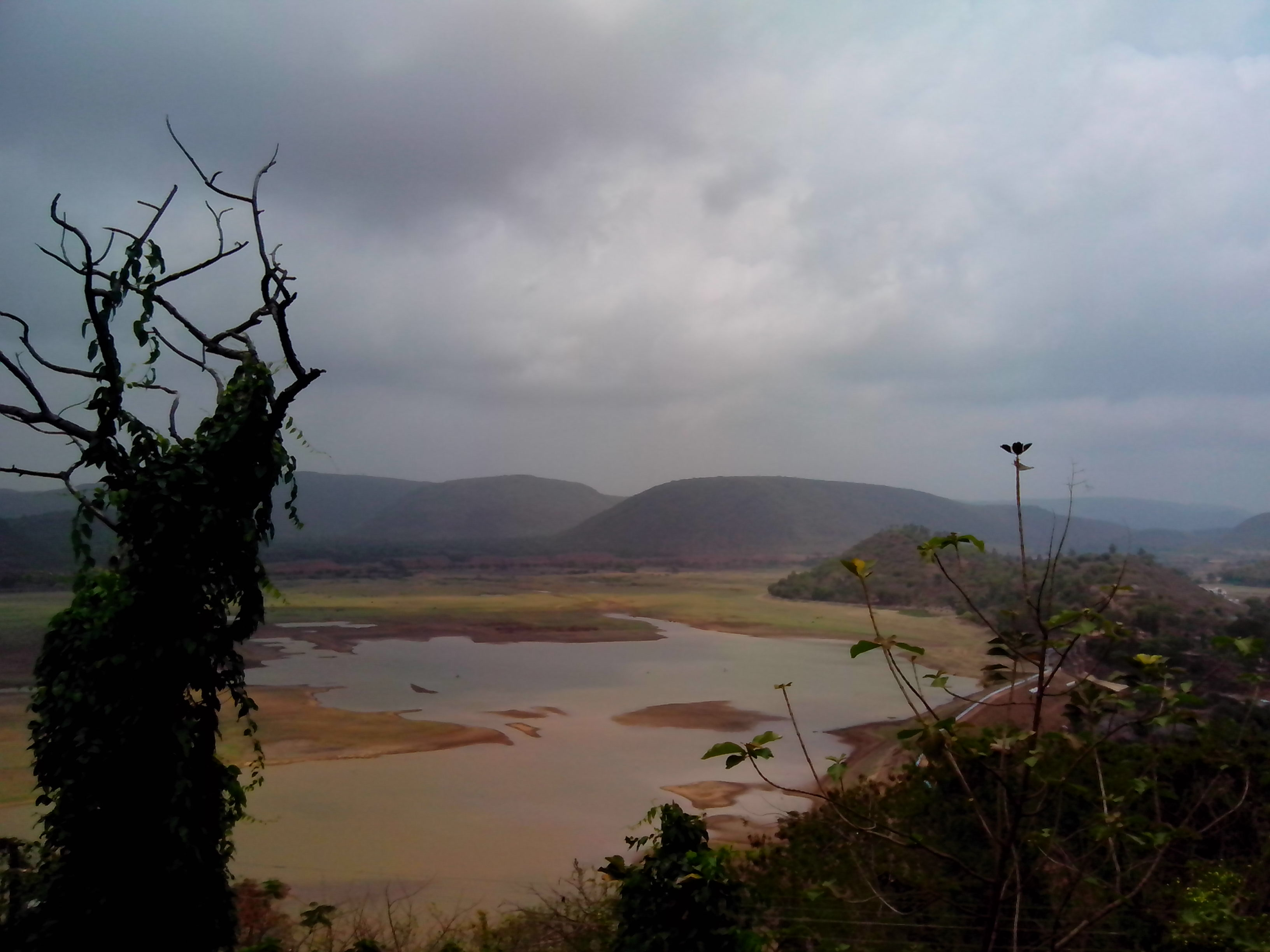 Scenic view at annavaram